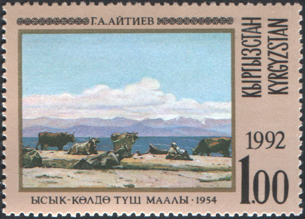 Stamp of Kyrgyzstan, 1992. Author A. G. Aitiev - Post of Kyrgyzstan.